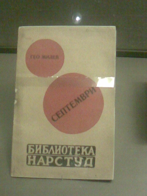 First edition of the poem "September" by the bulgarian poet Geo Milev